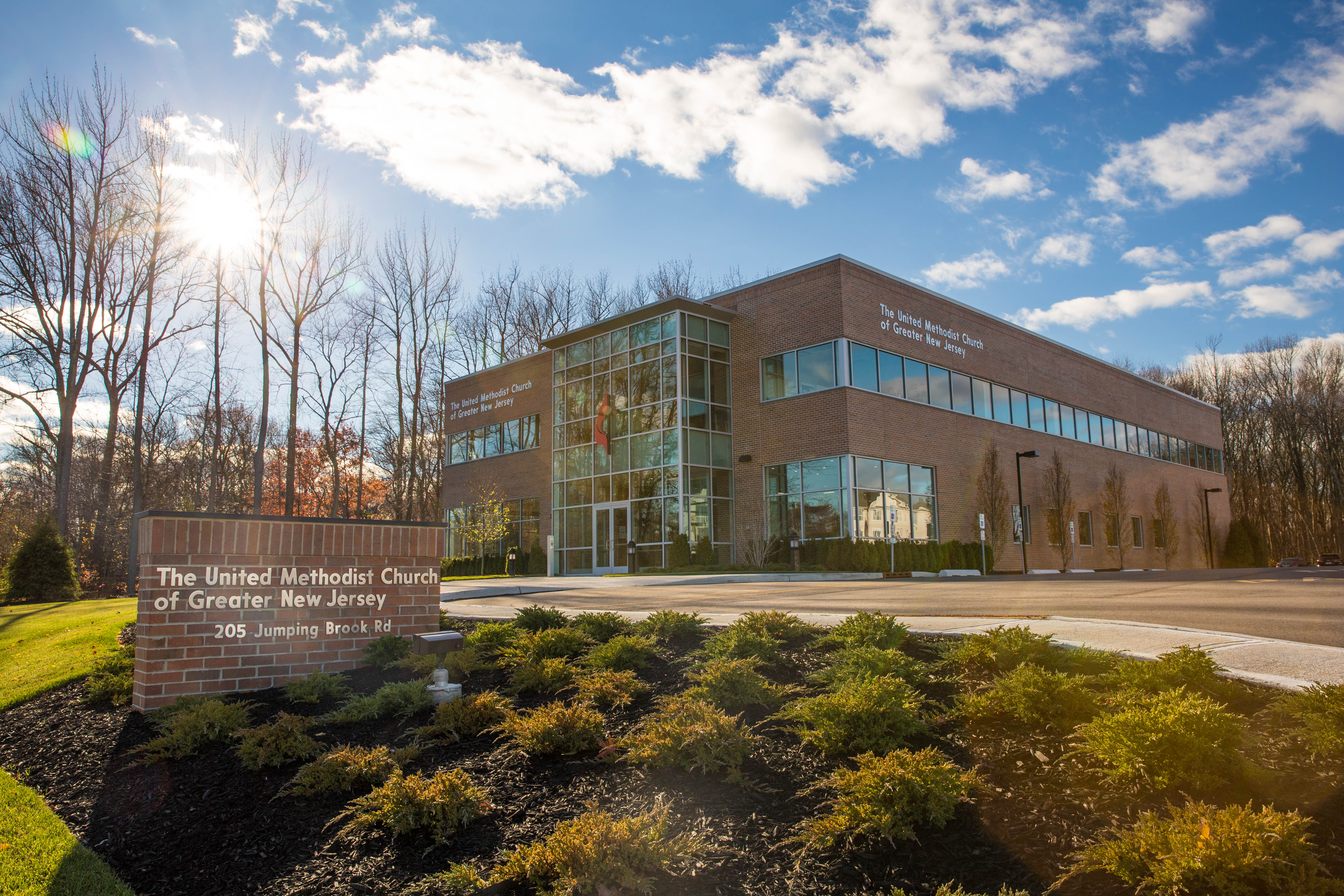 The Mission and Resource Center, serving as the conference office, located in Neptune, New Jersey